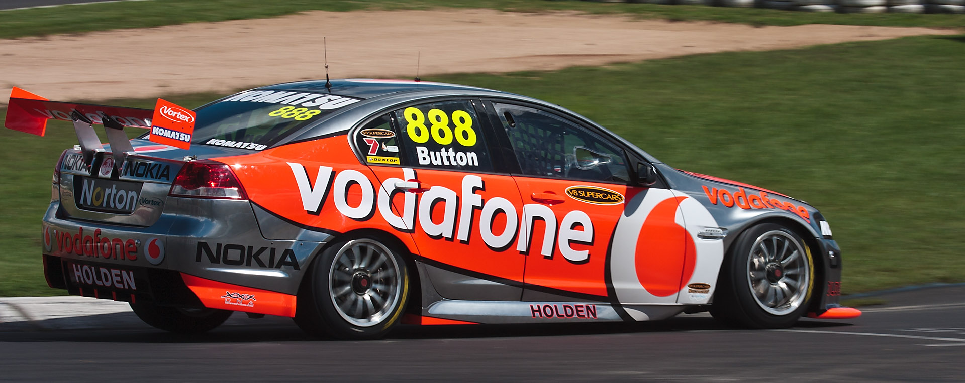 Jenson Button doing a lap in Triple Eight Racing VE Holden Commodore V8 Supercar on the Mount Panorama Circuit.